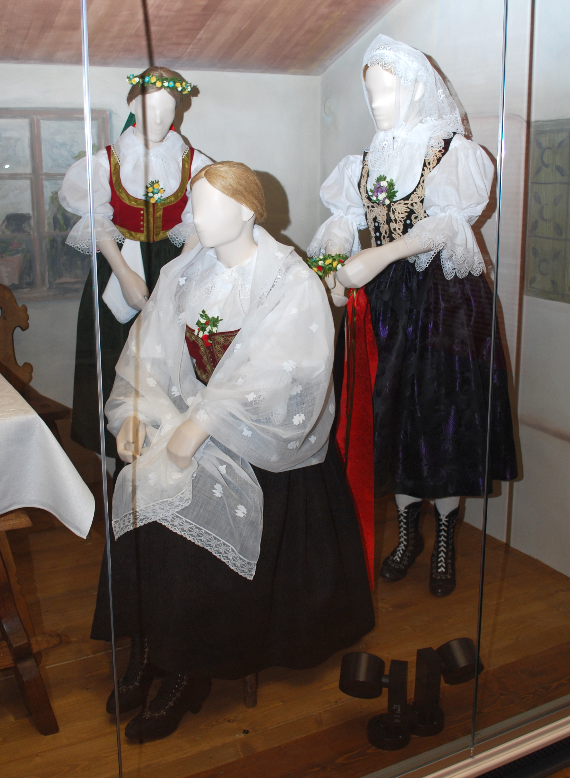 Wedding dress of the bride from first qarter of XX century